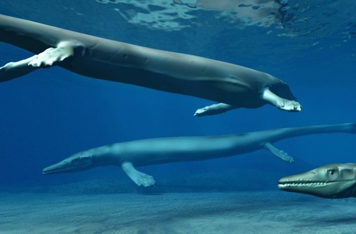 Clidastes propython, a mosasaur from the Late Cretaceous of Kansas, digital.